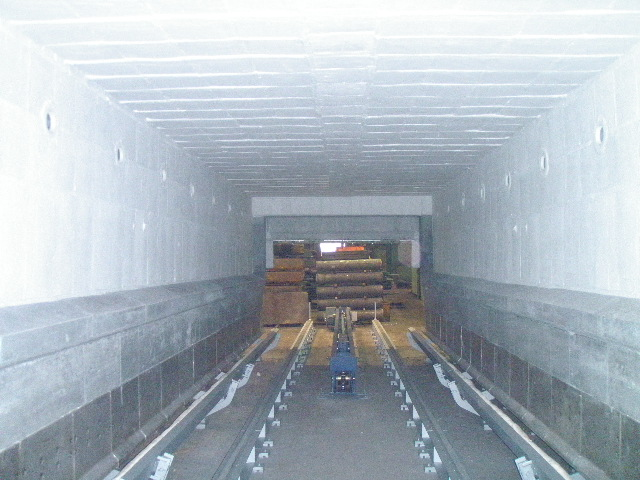 industrial furnace equipped with HTIW modules